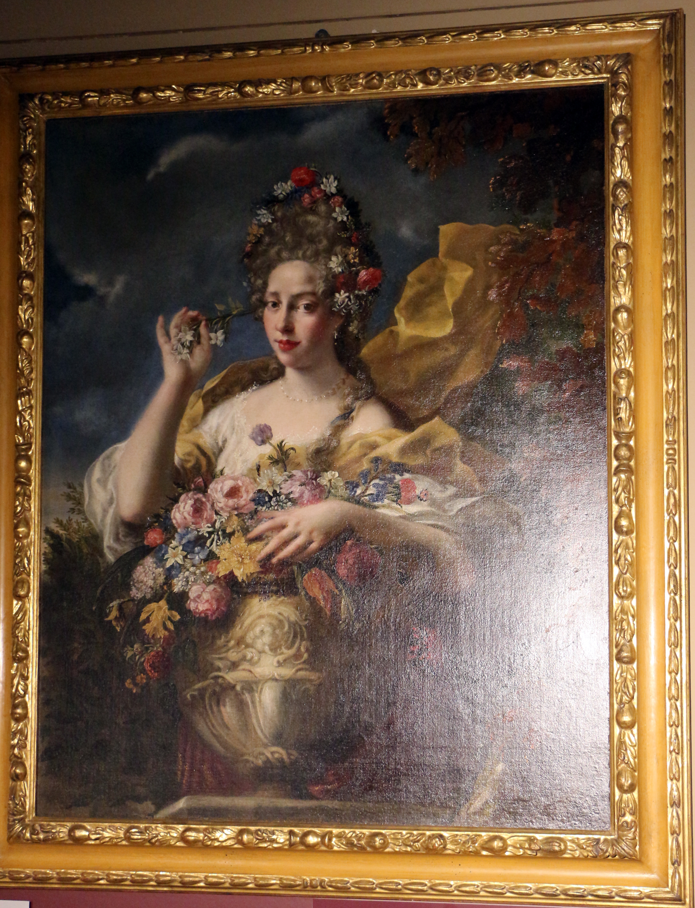 Il Tesoro d'Italia (exhibition at Expo 2015)Il Tesoro d'Italia (exhibition at Expo 2015)